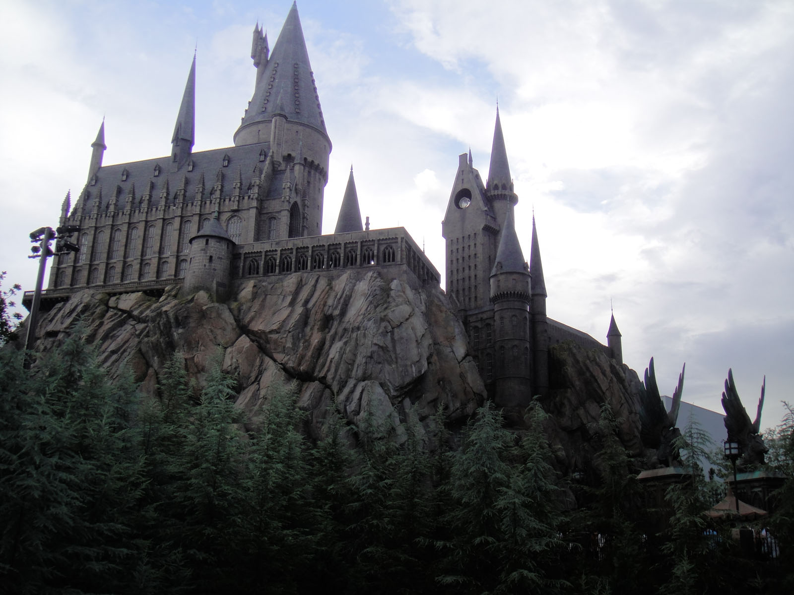 Wizarding World of Harry Potter - Hogwarts